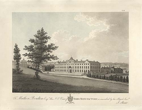 Engraving of Soho Manufactory from Stebbing Shaw's History of Staffordshire